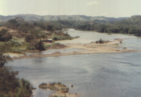 Photo taken by myself of the Chagres River in Panama, February 1986 Summary Photo taken by myself of the Chagres River in Panama, February 1986